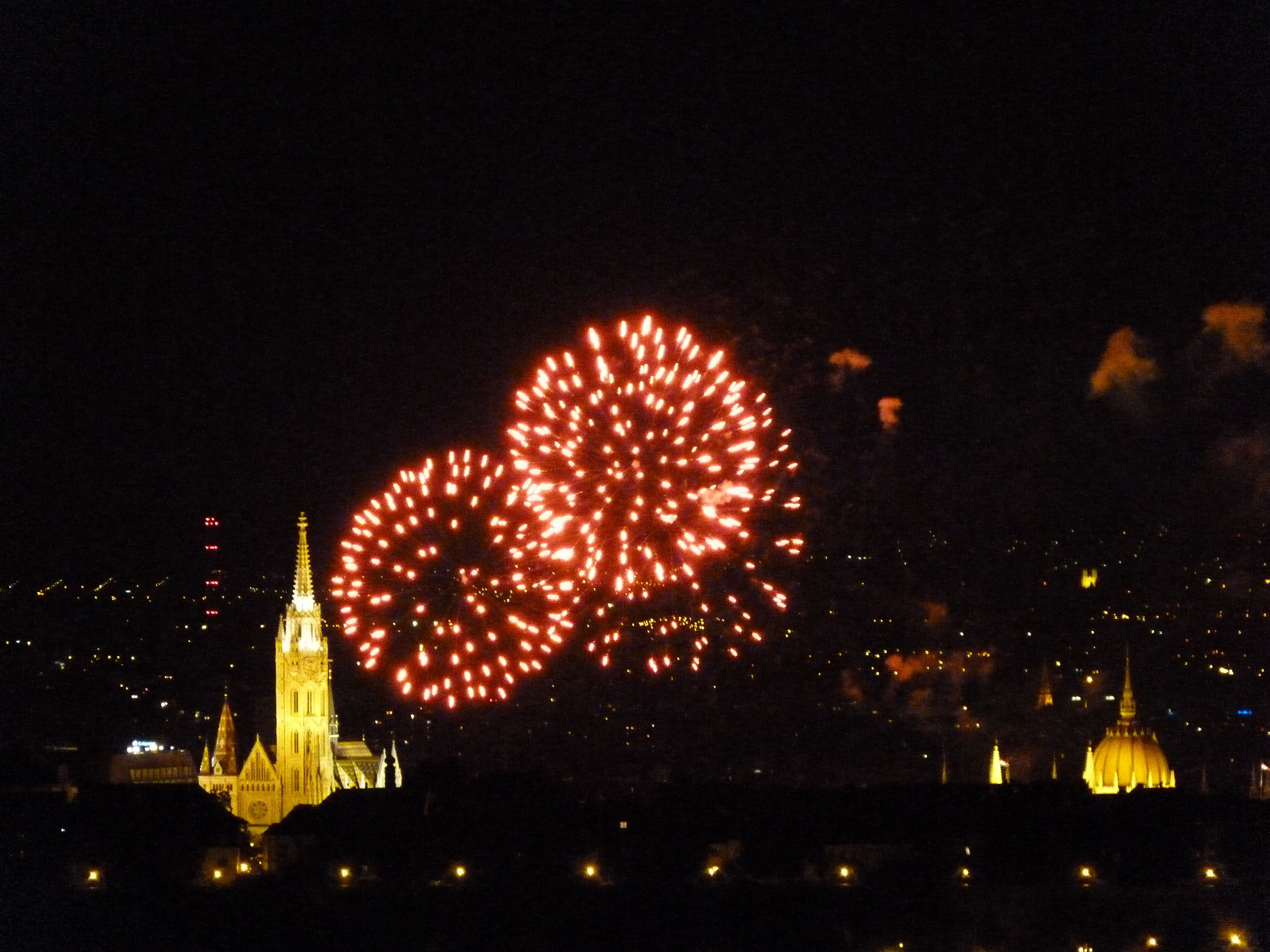 Fireworks, Budapest 2011. From the Sashegy.